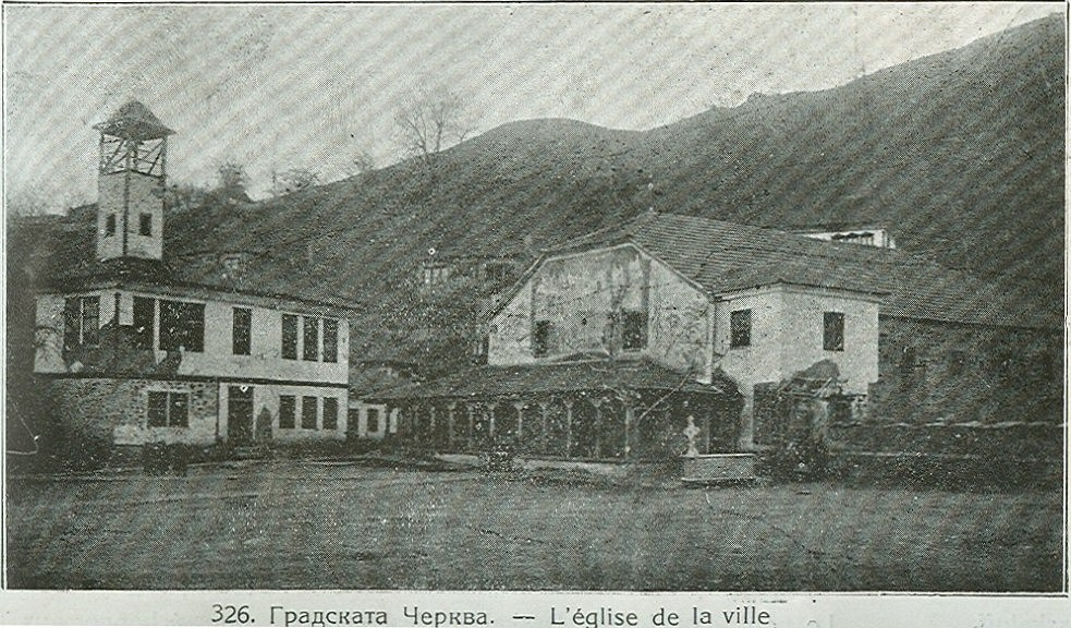 Church in Kriva palanka